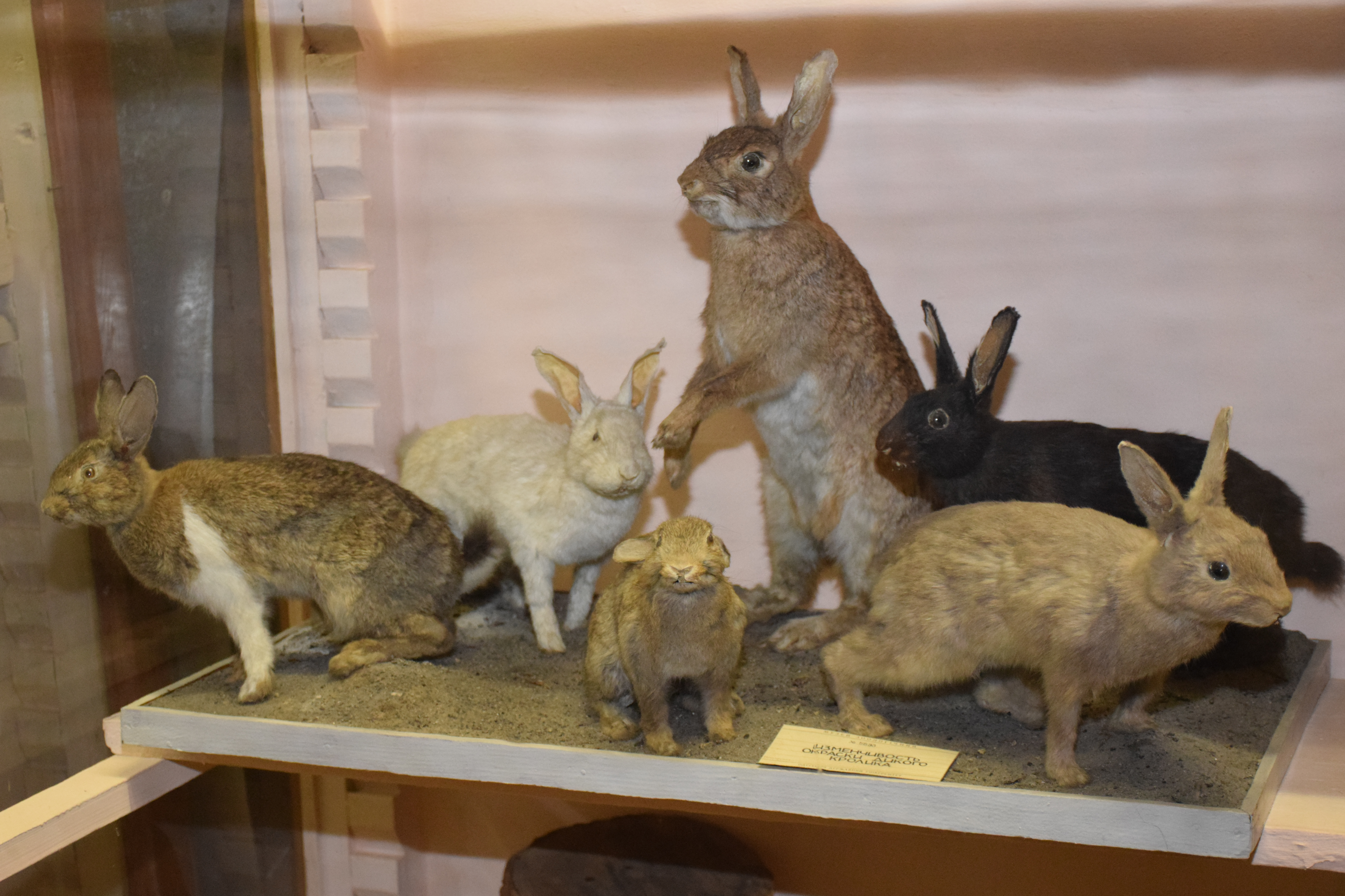 European rabbits in exposition of the Zoological Museum of Odessa National I. I. Mechnokov University in Ukraine